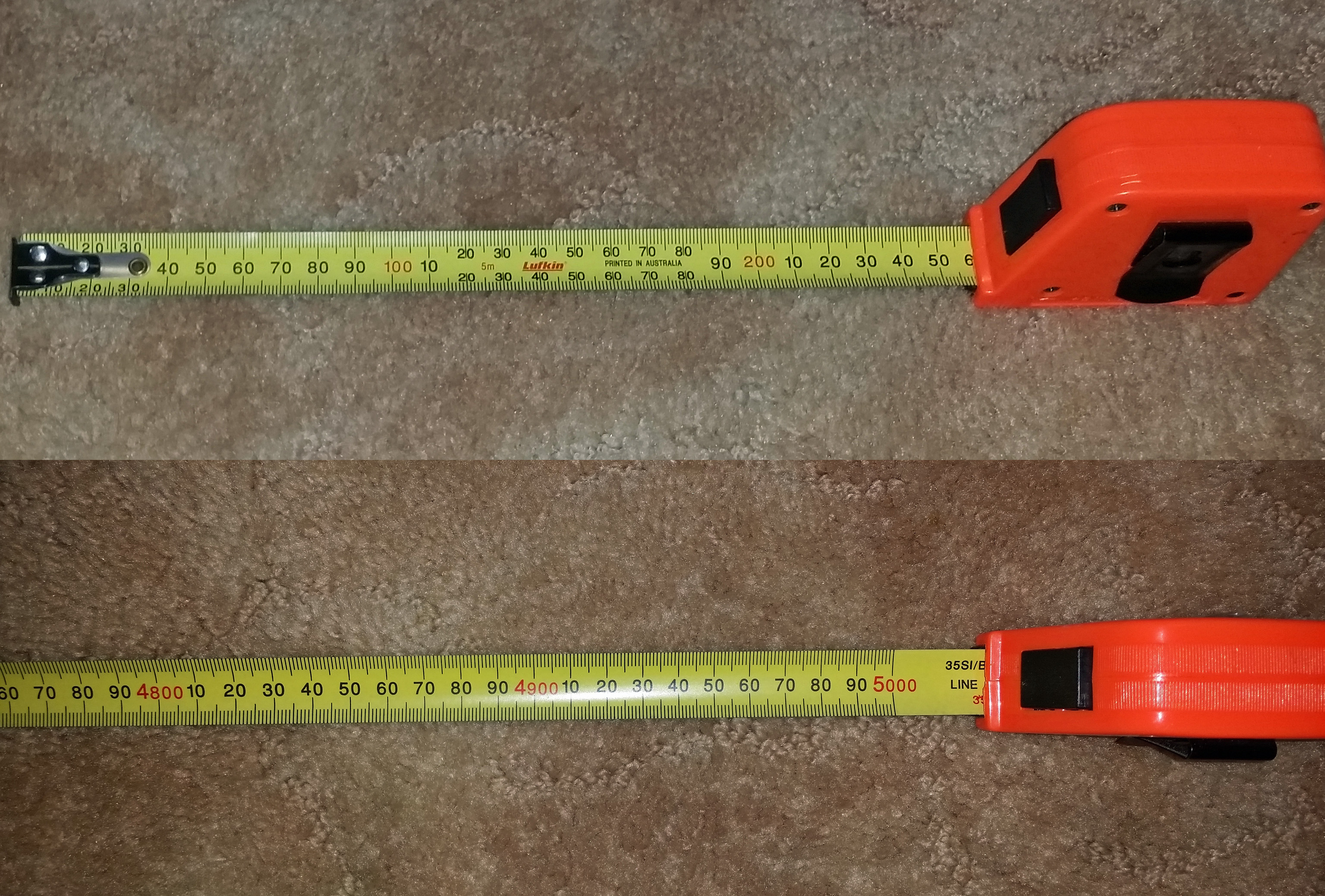 Australian 5 Metre measuring tape, with the markings entirely in millimetres.